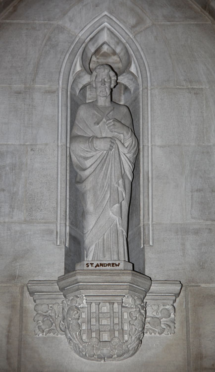 The statue of St. Andrew in the the Wilson Bay of the south nave of the Washington National Cathedral in Washington, D.C. Wilson died on February 3, 1924, almost three years after his second term as president ended. He was buried in a private service on February 6, 1924, in the burial vault beneath the Bethlehem Chapel at the Washington National Cathedral in Washington, D.C. A sarcophagus-shaped cenotaph was placed in the chapel in November 1924. In 1956, which the cathedral nave finally nearing completely, the cenotaph was moved from the Bethlehem Chapel to the center of the Wilson Bay arch facing the nave. Wilson was interred inside the sarcophagus. Andrew, along with his brother Peter, were the first disciples of Jesus Christ. He was martyred (crucifixion) in the city of Patras in western Greece either in the mid or late first century. St. Andrew is the patron saint of Scotland. Woodrow Wilson was of Scottish and Scots-Irish descent.